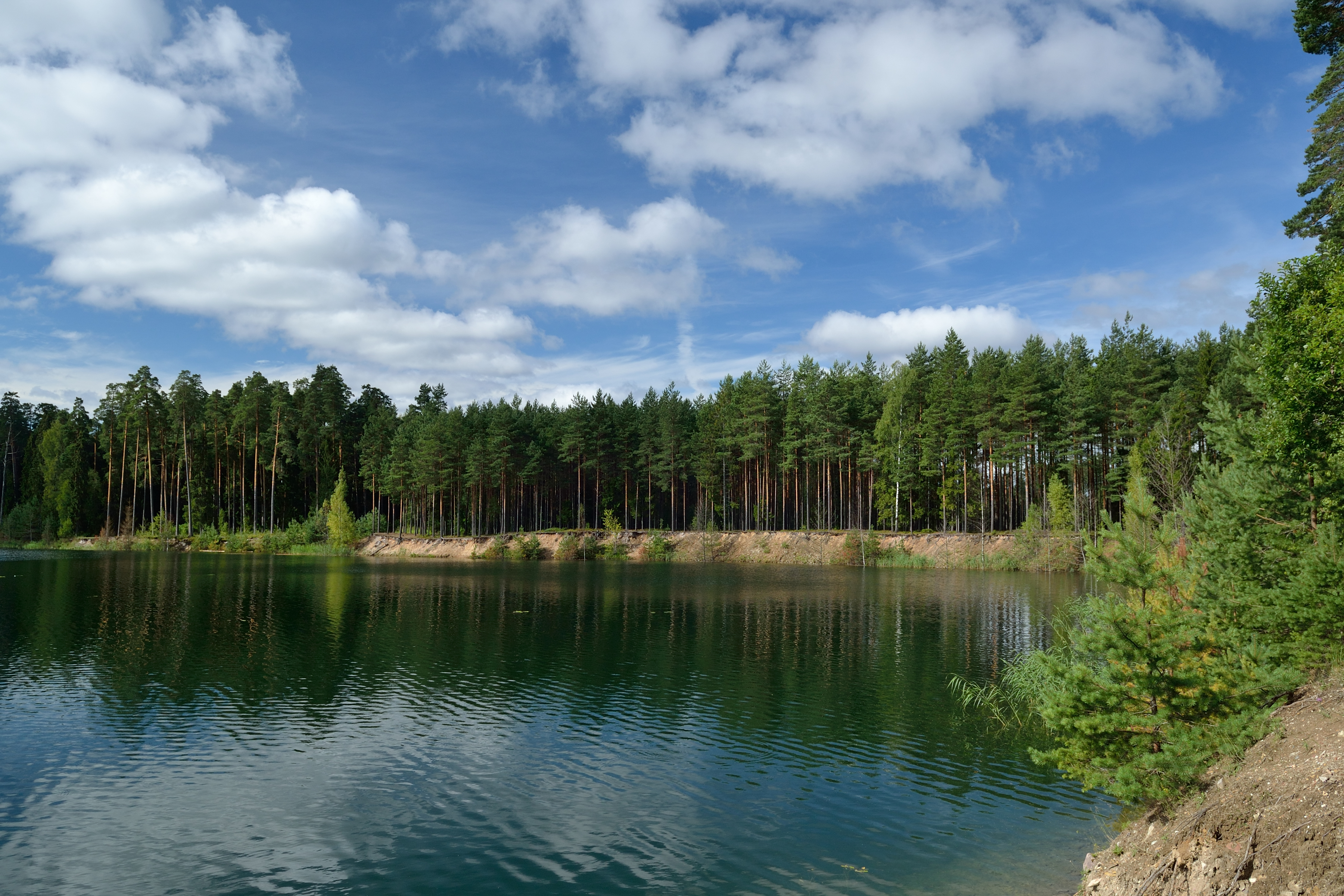 Lake Seljametsa, former quarry